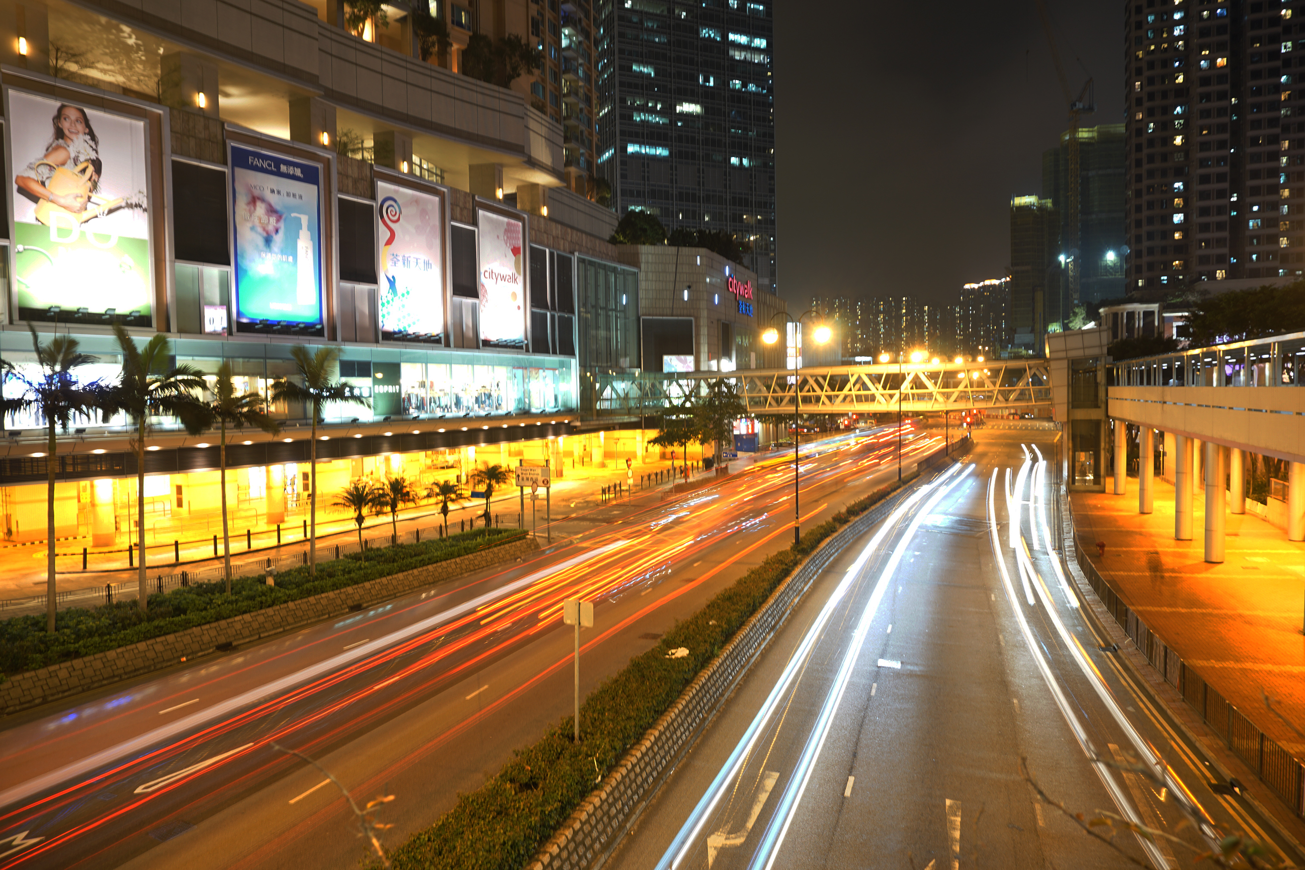 Tai Ho Road in Tsuen Wan, Hong Kong.